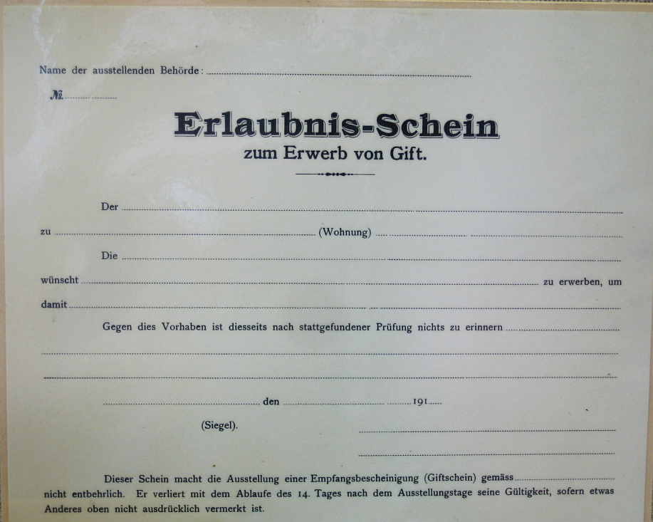 Historic permission for acquiring poison (around 1910)